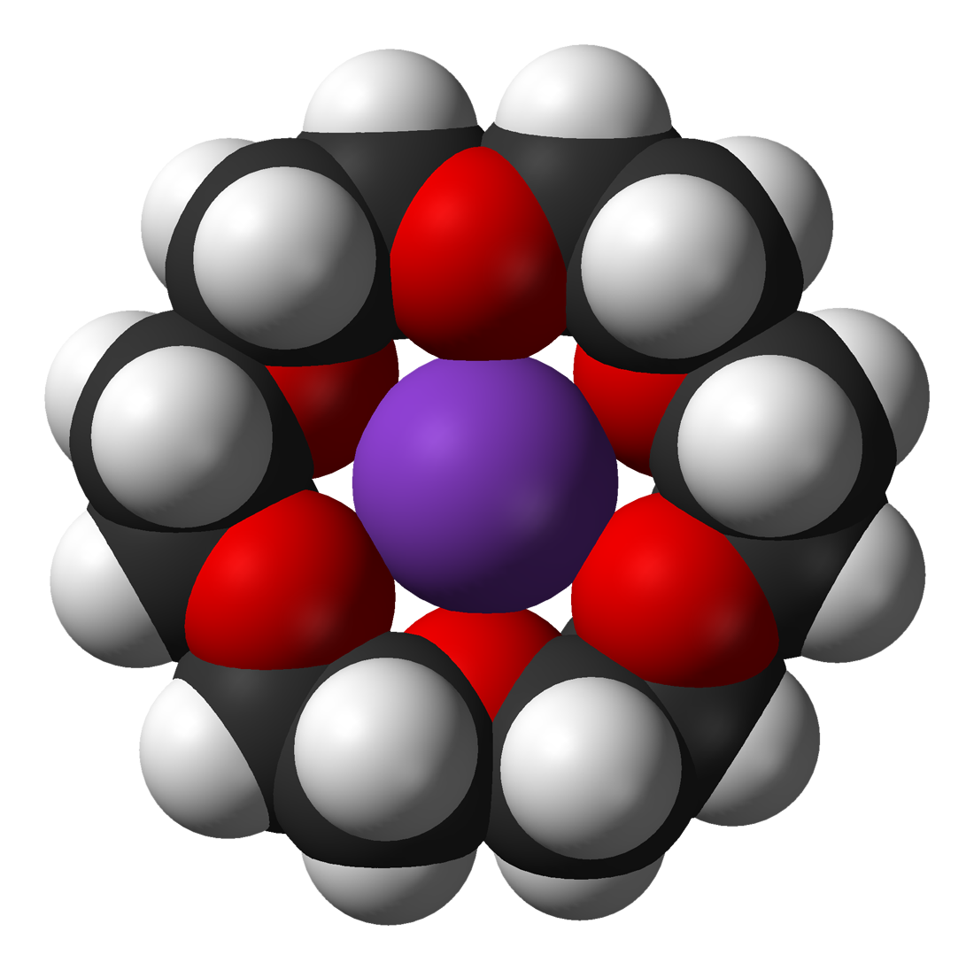 Space-filling model of the 18-crown-6 potassium complex in crystalline (18-crown-6)potassium chlorochromate, [K(C12H24O6)][CrClO3]. X-ray diffraction data from S. A. Kotlyar, R. I. Zubatyuk, O. V. Shishkin, G. N. Chuprin, A. V. Kiriyak and G. L. Kamalov (February 2005). "(18-Crown-6)potassium chlorochromate". Acta. Cryst. E61 (2): m293-m295.